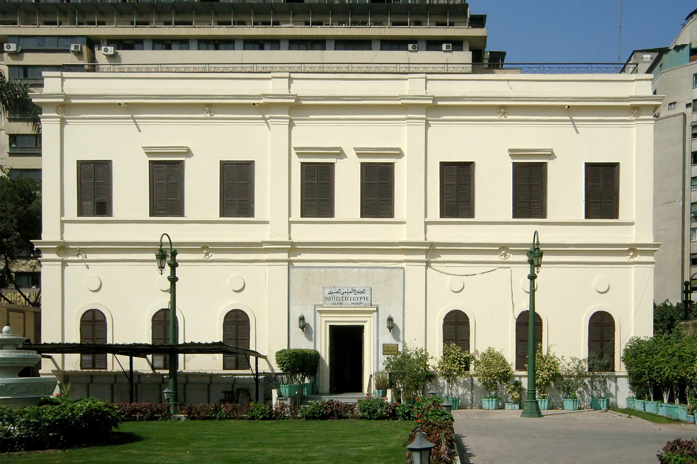 Entrance to the Institut d'Egypte, Cairo, Ägypten